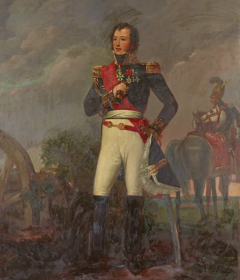 Joseph Chabord